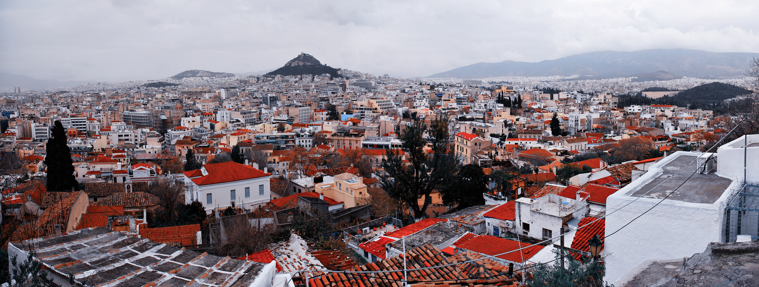 Panoramic view of Athens cityscape (composition center: Lykavittos Hill). Athens, Greece.